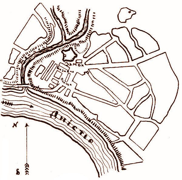 Plan of fortress in the Ukrainian city of Zhvanets where there was a battle in 1653 during the Khmelnytsky Uprisings. Work by Napoleon Orda.